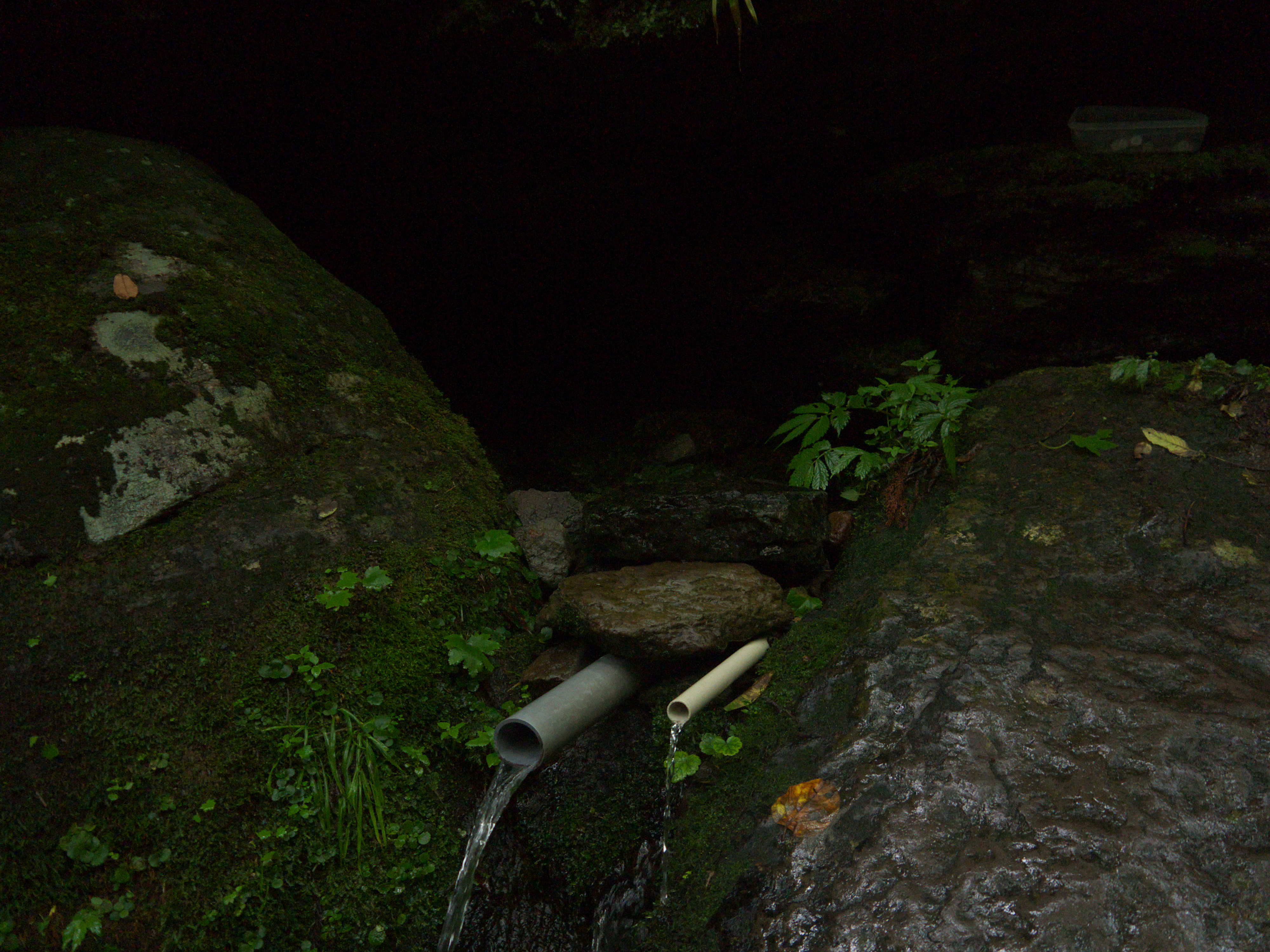 Iwai Spring in Kagamino, Okayama, Japan